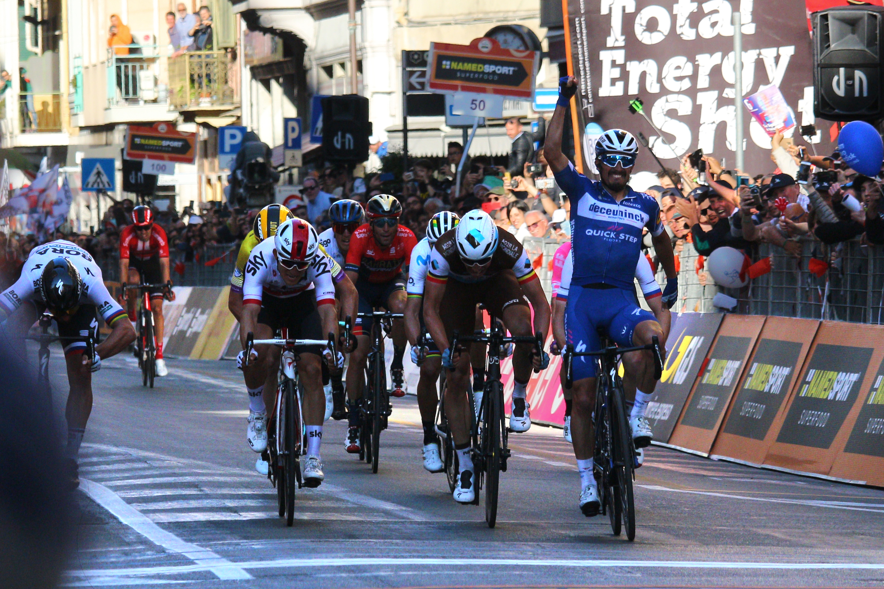 End of 2019 Milan-Sanremo